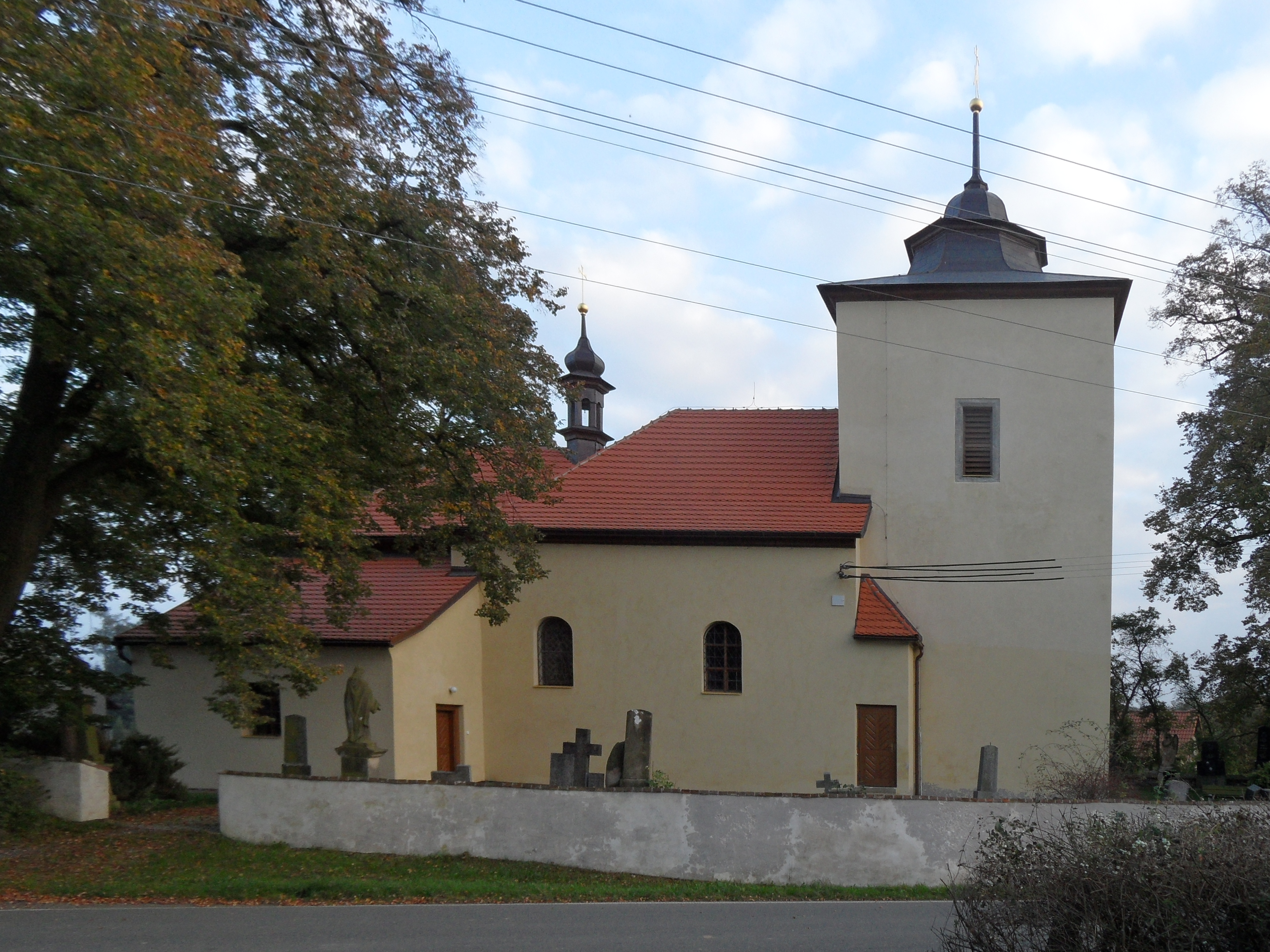 Košice (okres KH) D. Church of the Nativity of the Virgin Mary, Kutná Hora District, the Czech Republic.